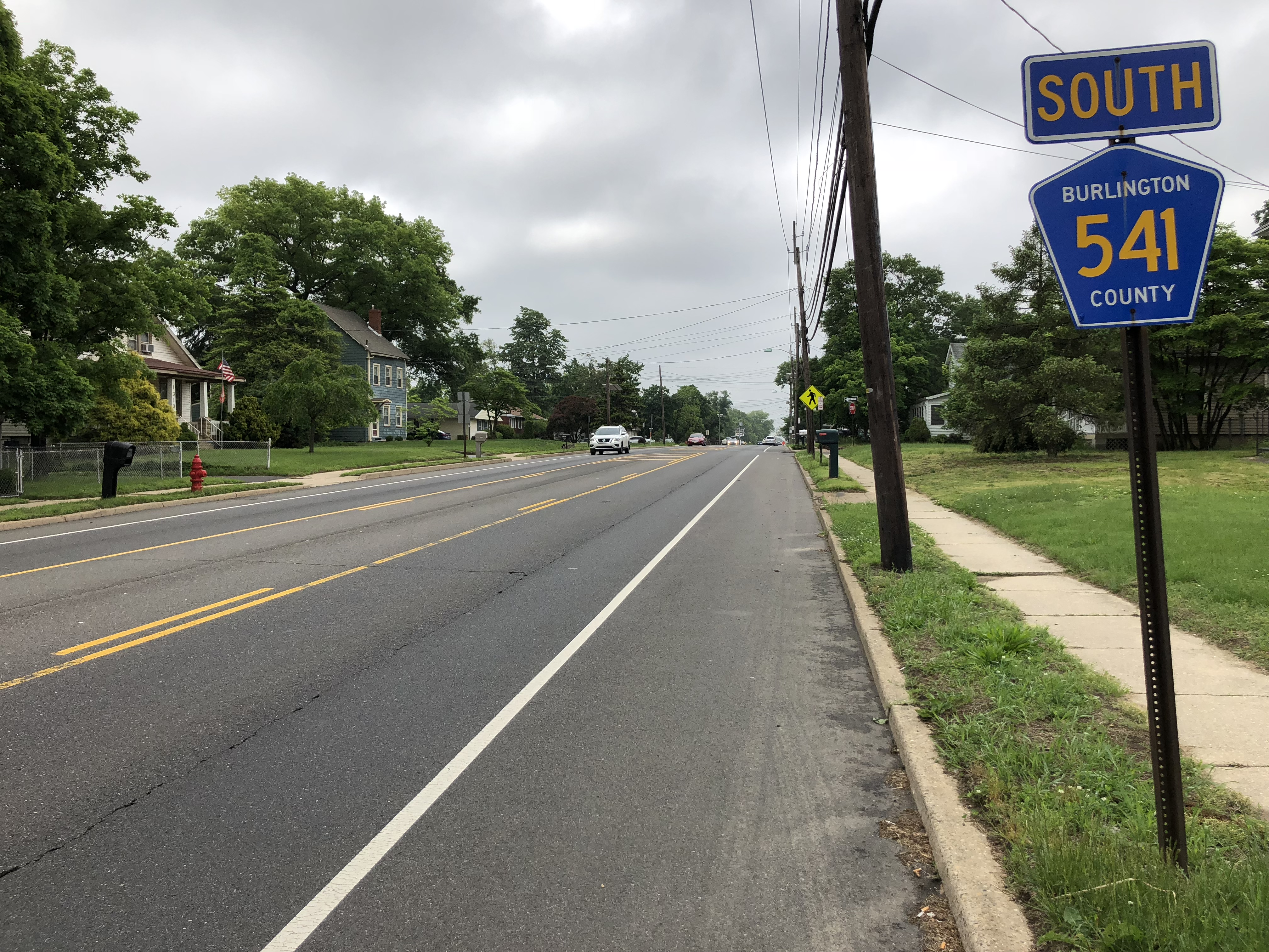 View south along Burlington County Route 541 (Mount Holly Road) between 13th Street and Chapel Street in Burlington Township, Burlington County, New Jersey